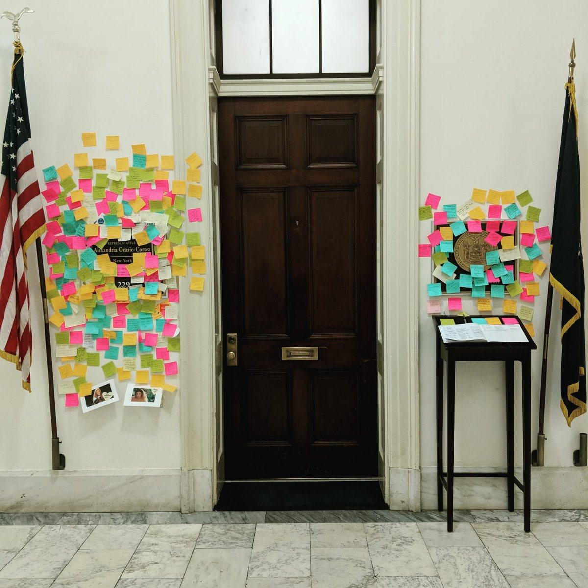 Supporters of U.S. Rep. Alexandria Ocasio-Cortez (D-N.Y.) covered the plaque outside her Capitol Hill office with encouraging sticky notes.